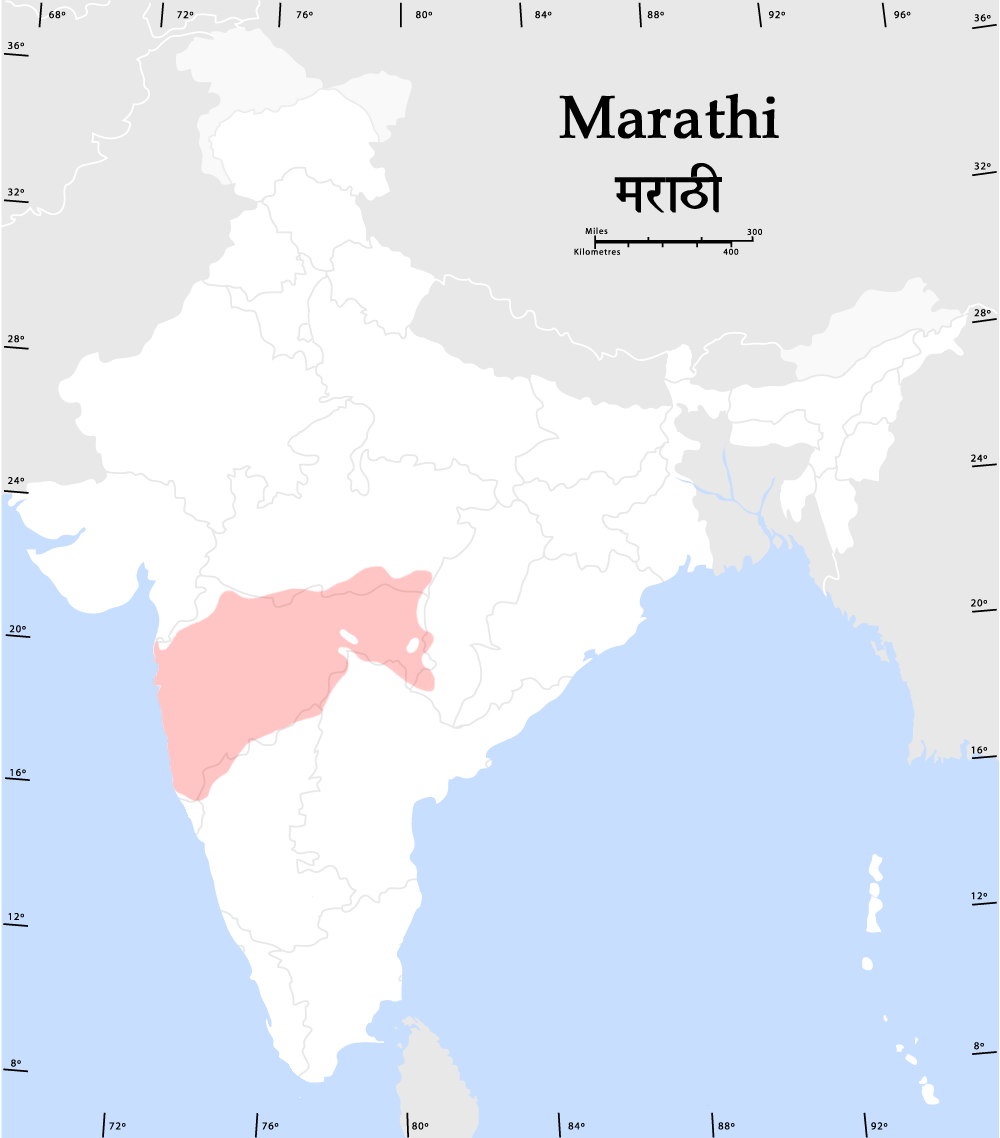 A map of the distribution of native Marathi speakers in India